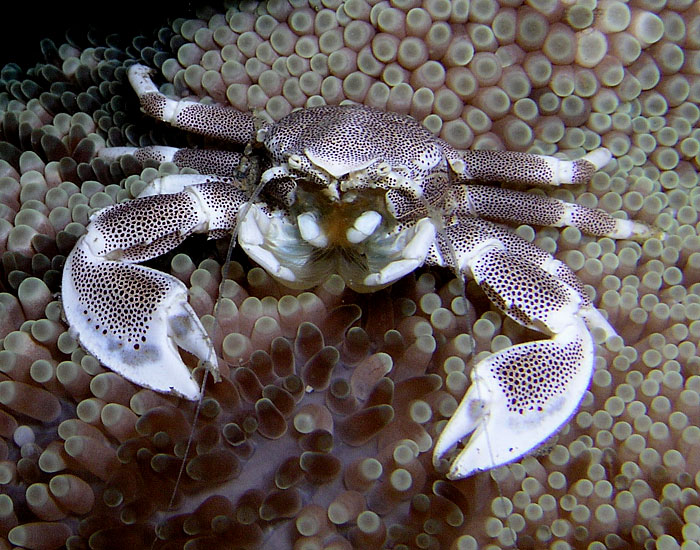 Porcelain crab (Neopetrolisthes maculatus) on carpet anemone